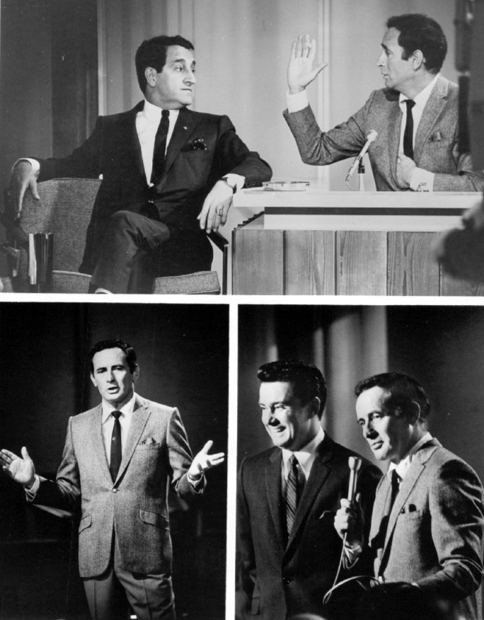 Publicity photo for the Joey Bishop Show--a talk television program. Pictured are Danny Thomas as guest, Regis Philbin as announcer/sidekick, and Joey Bishop.